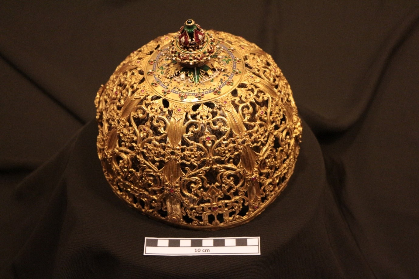 Crown of the Sultanate of Banten collection of National Museum Inventory Number E 619 is made of 24 carat gold, silver, and inlaid 116 precious stones.